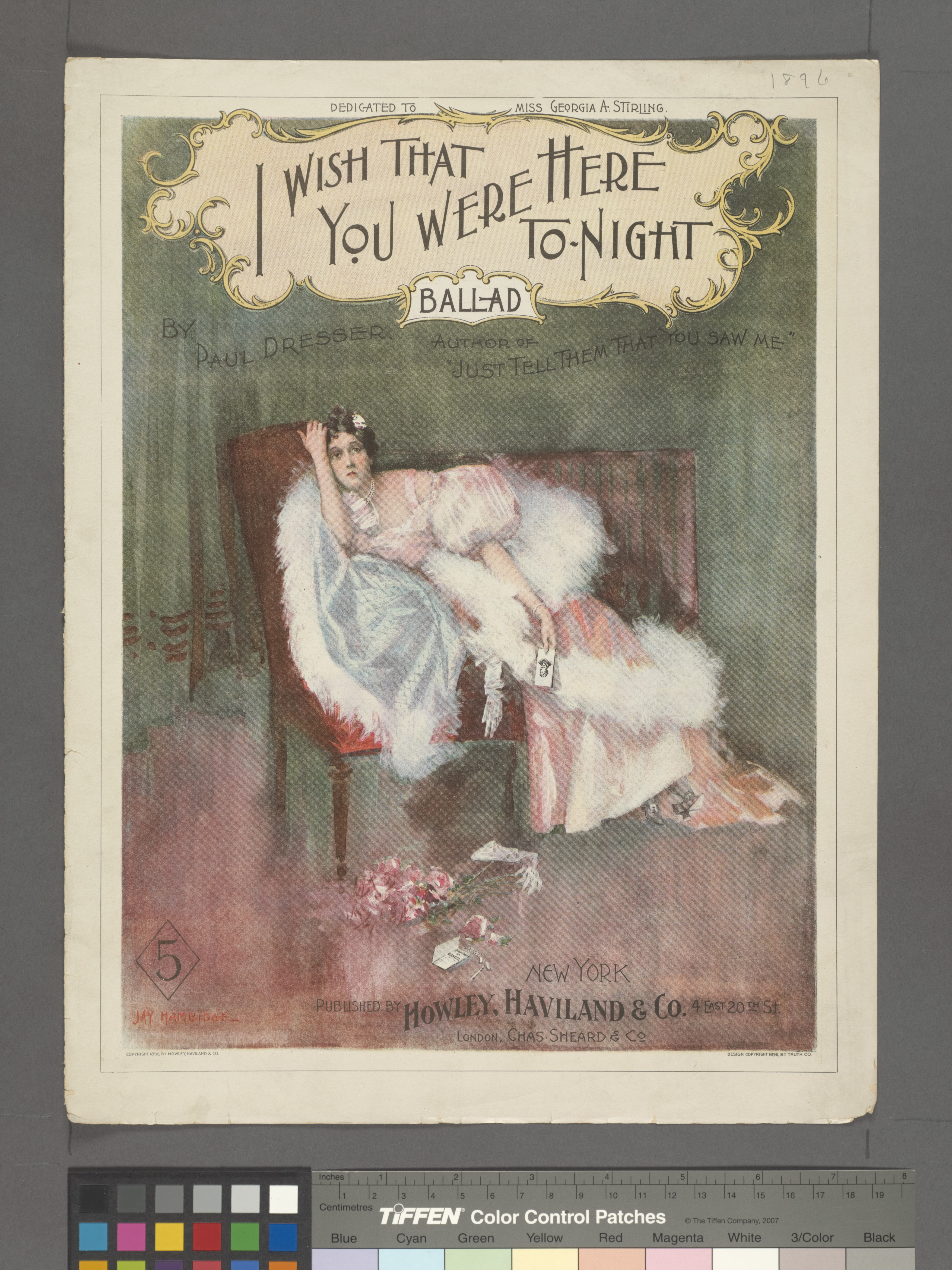 Dedicated to Miss Georgia A. Stirling. On cover: picture of a woman holding a man's photo. Statement of responsibility : words and music by Paul Dresser.